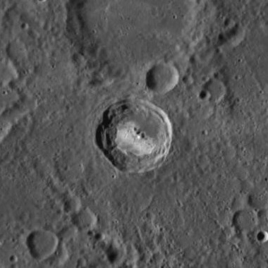 Hopper crater, on Mercury. MESSENGER Wide Angle Camera mosaic. Image is approximately 125 km wide.